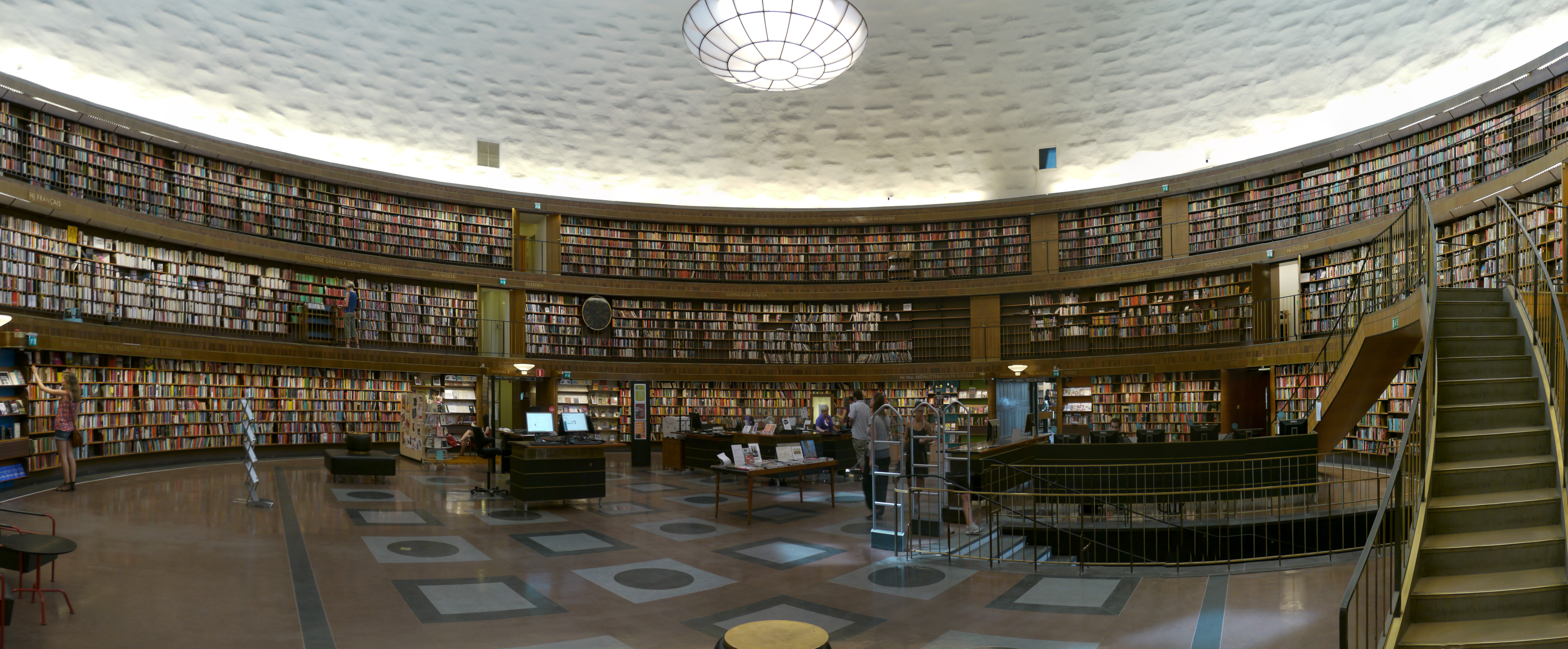 Stochholm public library. Panorama from inside.